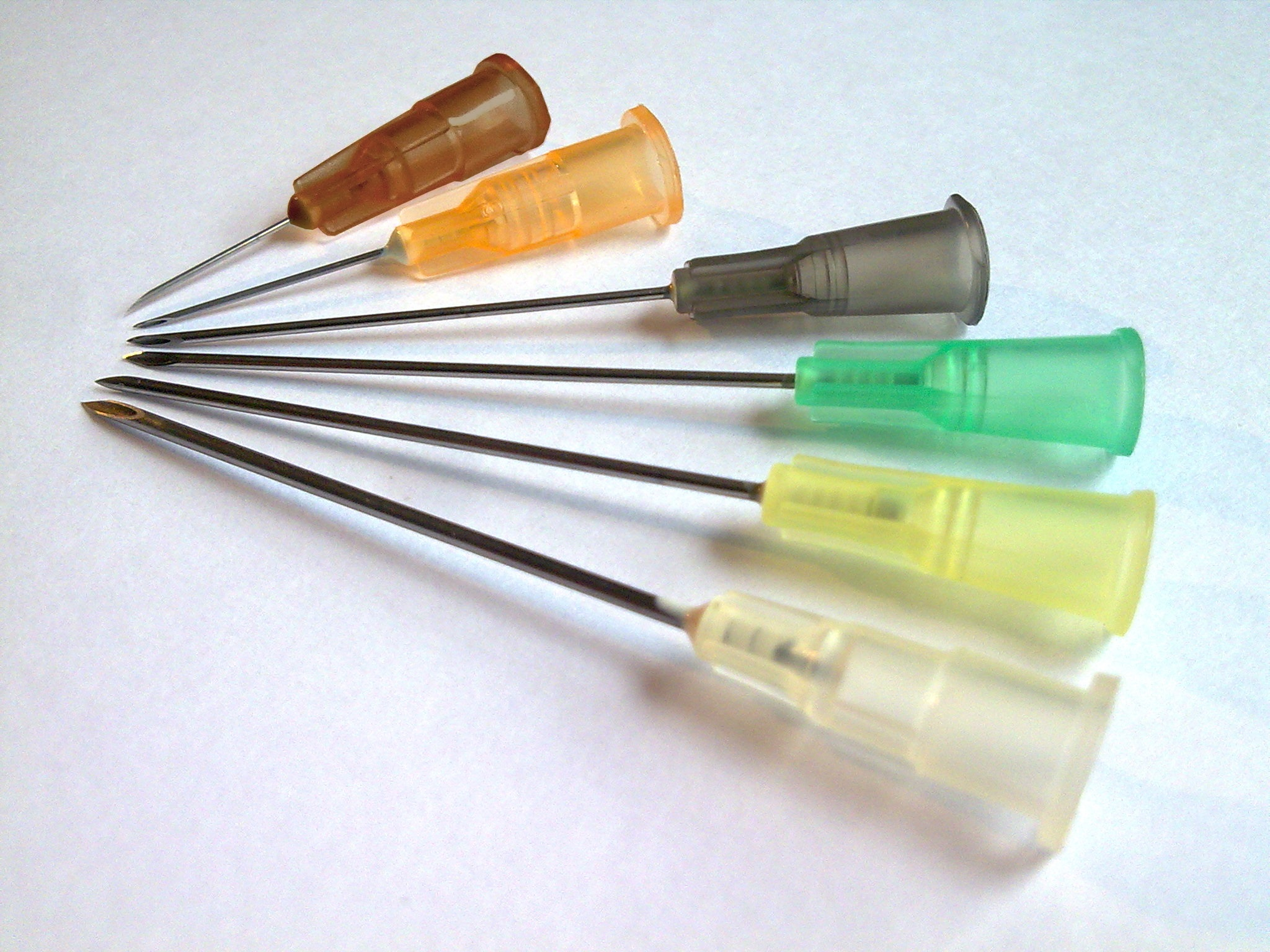 6 hypodermic needles on luer connectors; from top to bottom by Birmingham gauge:Terumo 26G x 1/2" (0.45 x 12mm) (brown)Terumo 25G x 5/8" (0.5 x 16mm) (orange)Becton Dickinson 22G x 1 1/4" (0.7 x 30mm) (black)Becton Dickinson 21G x 1 1/2" (0.8 x 40mm) (green)Becton Dickinson 20G x 1 1/2" (0.9 x 40mm) (yellow)Terumo 19G x 1 1/2" (1.1 x 40mm) (white)See also needle gauge comparison chart.